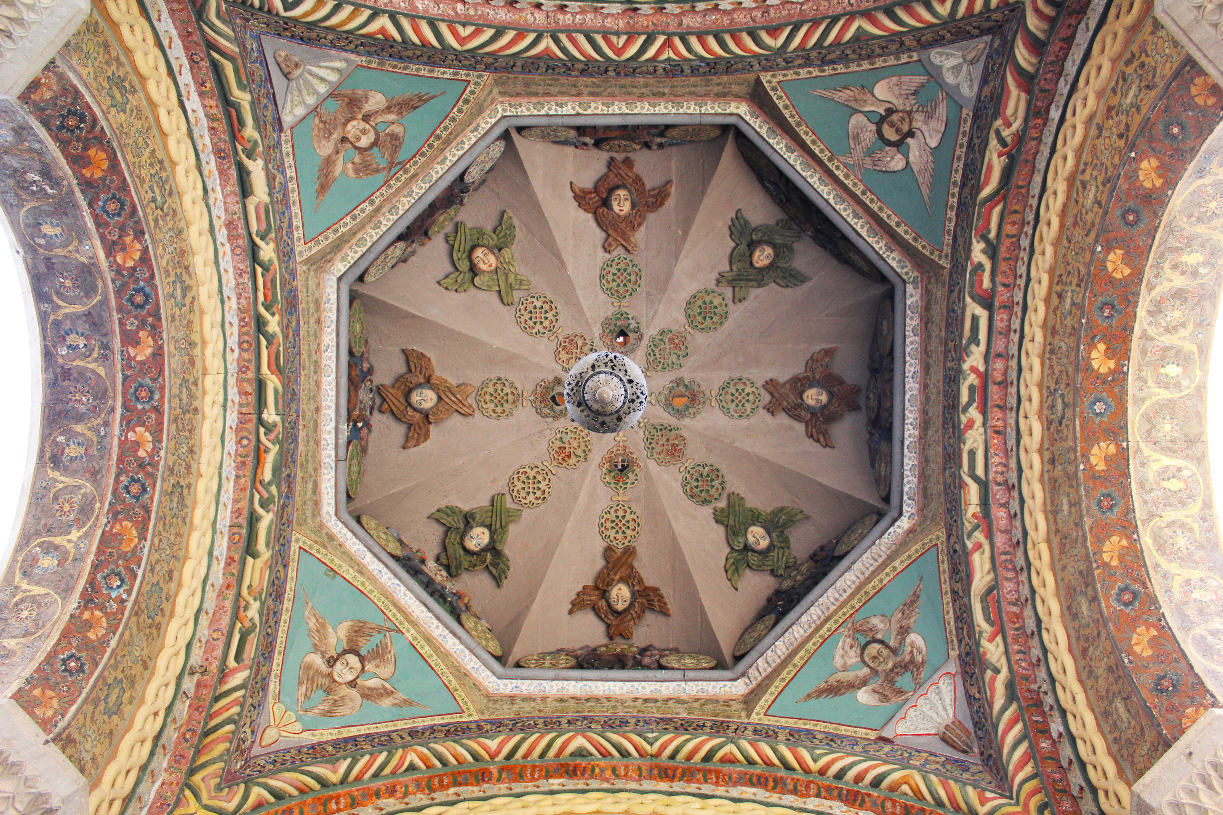 Seraphs in Echmiadzin cathedral, under the dome of the bell tower, in the city of Vagharshapat (Etchmiadzin), in Armenia's Armavir Province.